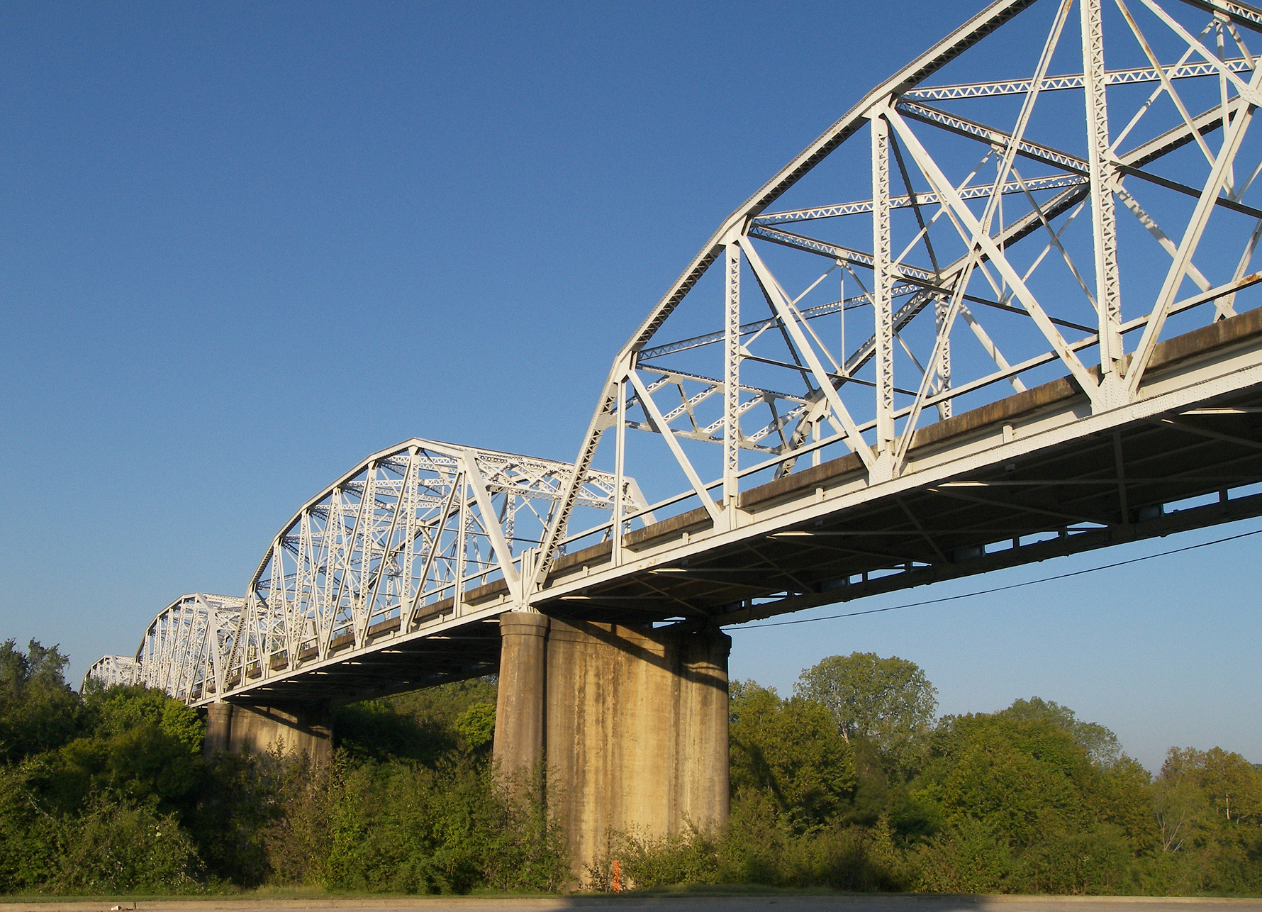 The State Highway 71 Bridge at the Colorado River in La Grange, Texas, United States. The bridge was listed on the National Register of Historic Places on October 10, 1996.